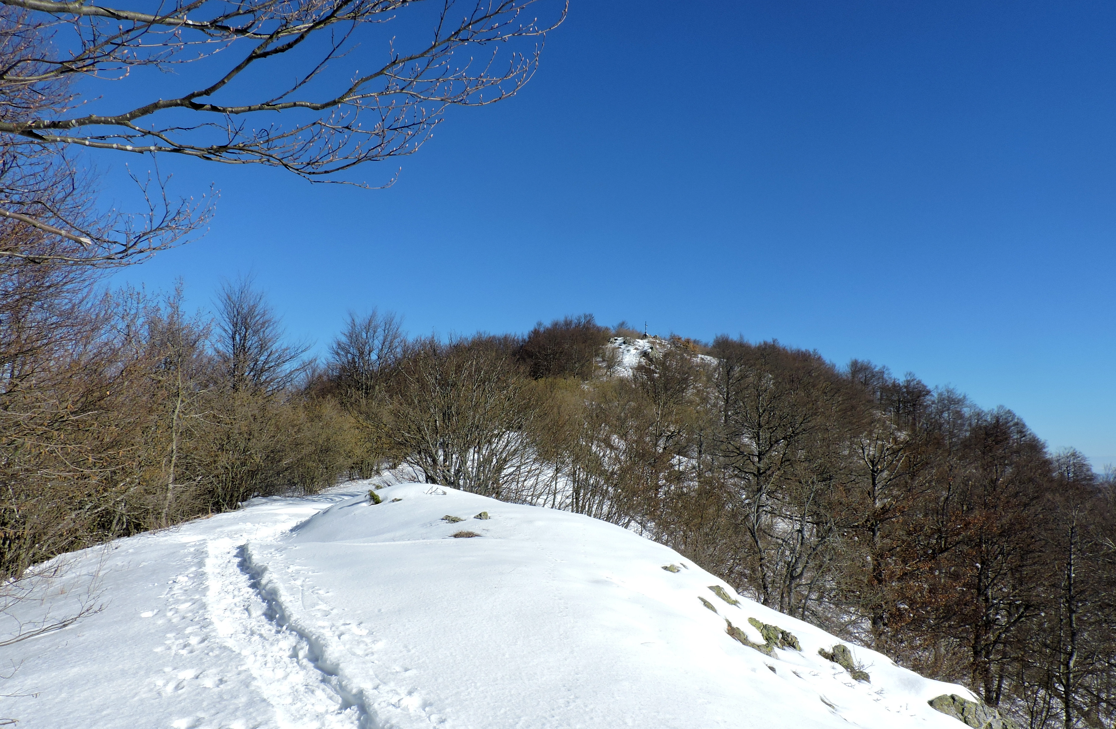 Monte Spinarda (Prealpi Liguri, Italy) from S-E